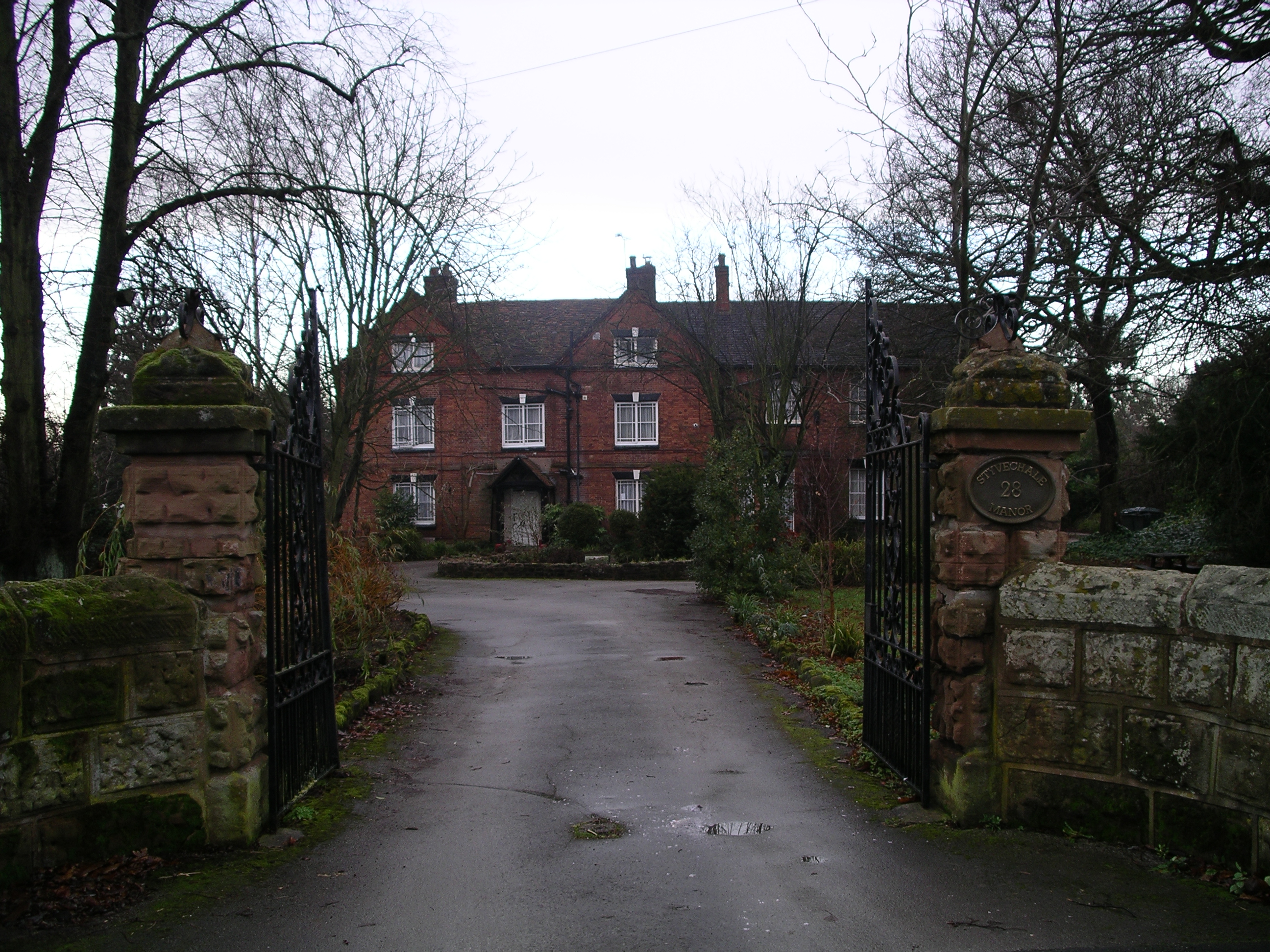 Styvechale Manor, Coventry, England. The modern spelling, Styvichall, is used for the name of the suburb. The sign on the gate shows that the manor retains the old spelling.